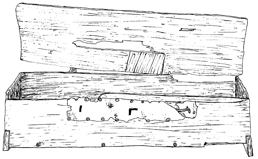 Cropped version. Part of the documentation of the Swedish Viking Age Mästermyr chest. Document no. 21592:043 from the archives of the Swedish History Museum.